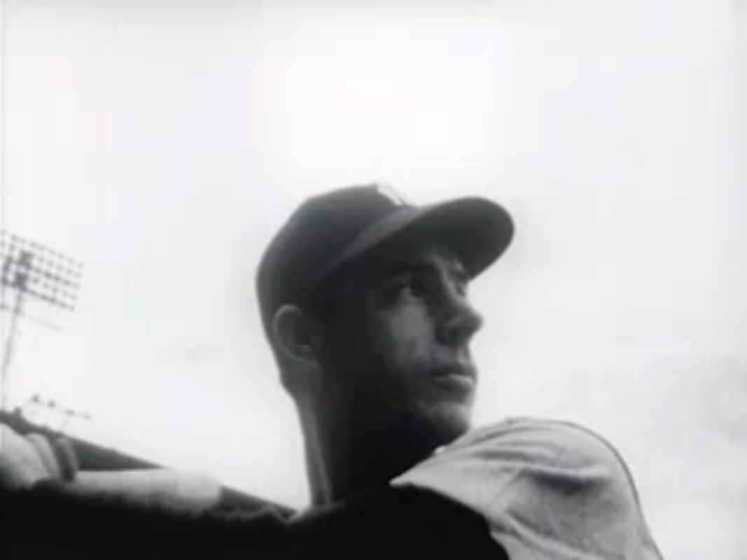 New York Yankees slugger Joe DiMaggio during the 1950 World Series at Shibe Park. * Screen capture from the film located at: This movie is part of the collection: Prelinger Archives